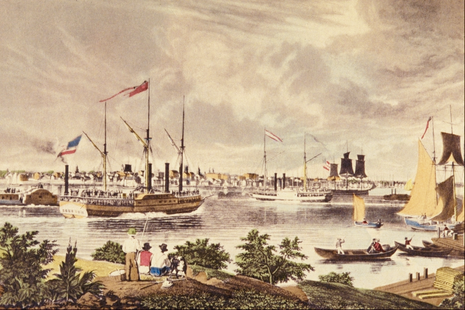 "City of Detroit, Michigan. Taken from the Canada Shore near the Ferry," after a sketch by Frederick Grain (fl. 1833-1857), published by Henry J. Megarey, New York, 1837. Corel Professional Photos CD-ROM. Great Works of Art: Engravings